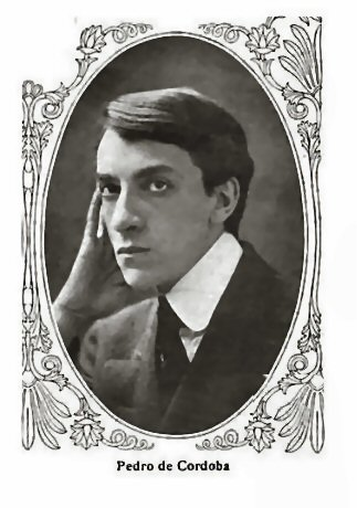 Actor Pedro de Cordoba